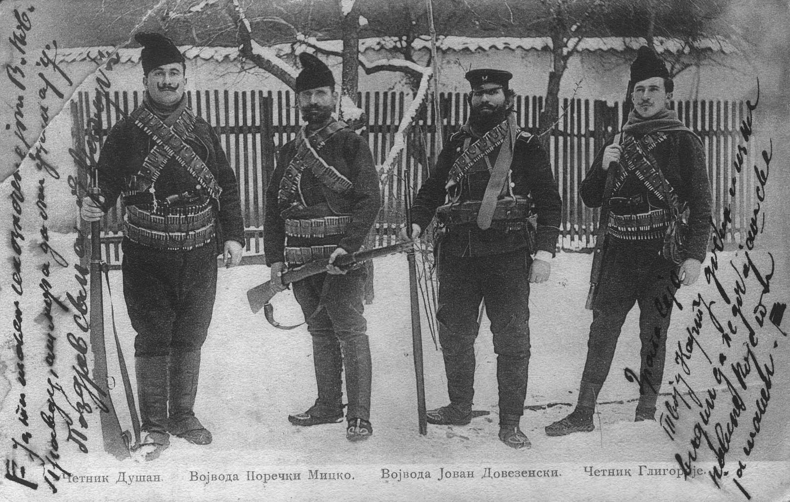 Serbian Chetnik Voivodes: 1. Dušan, 2. Micko Krstić (1909†), 3. Jovan Dovezenski, 4. Gligorije.